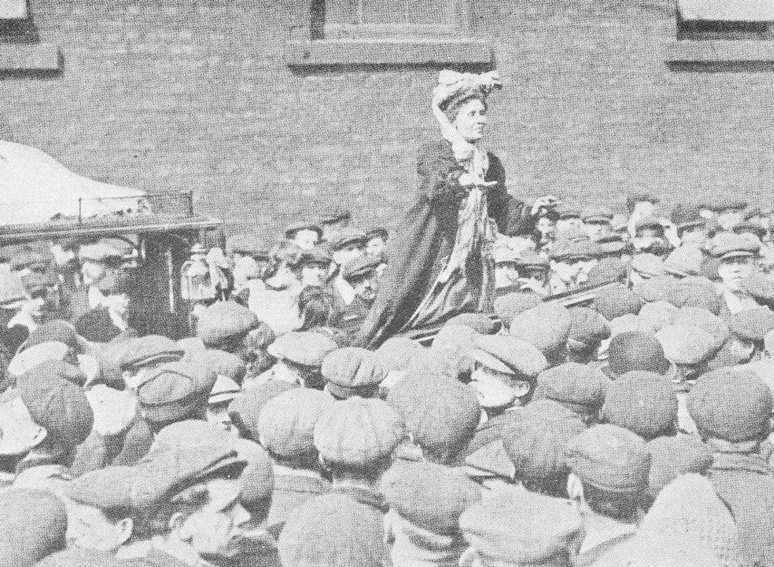 Emmeline Pankhurst speaking to a by-election crowd